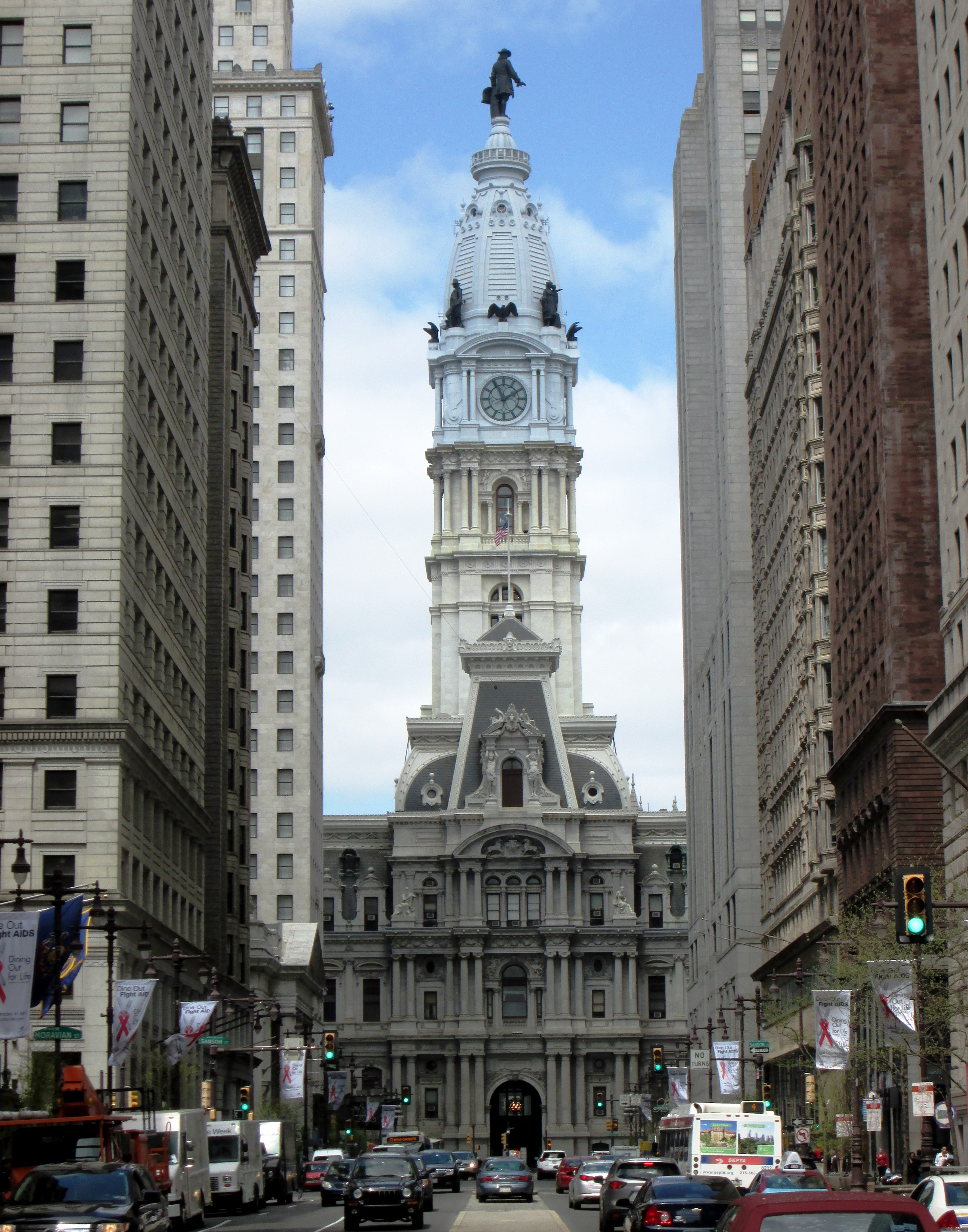 Philadelphia City Hall seen from S. Broad Street at Locust Street, across from the Academy of Music.